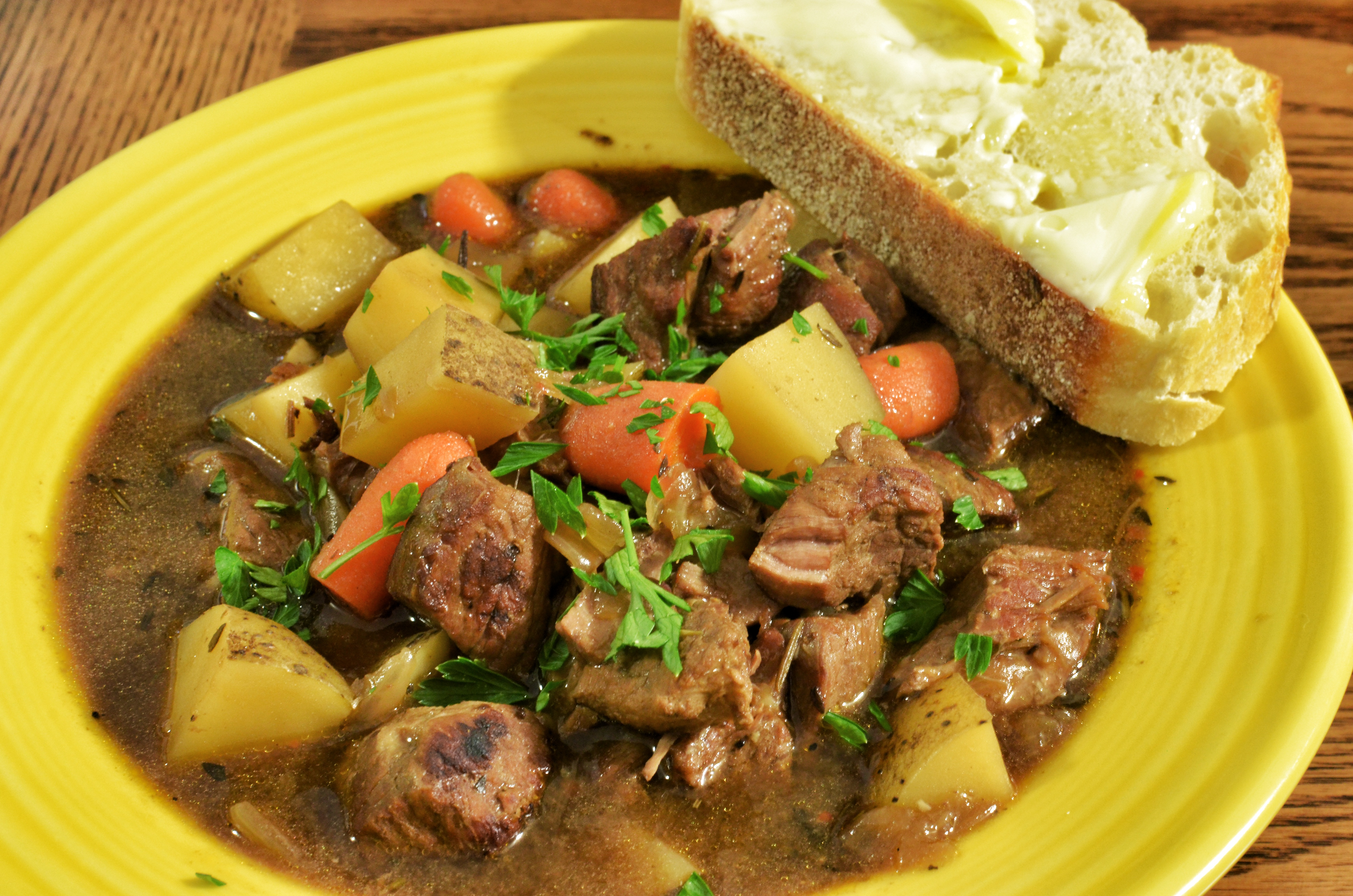 Mmm... Irish Stew